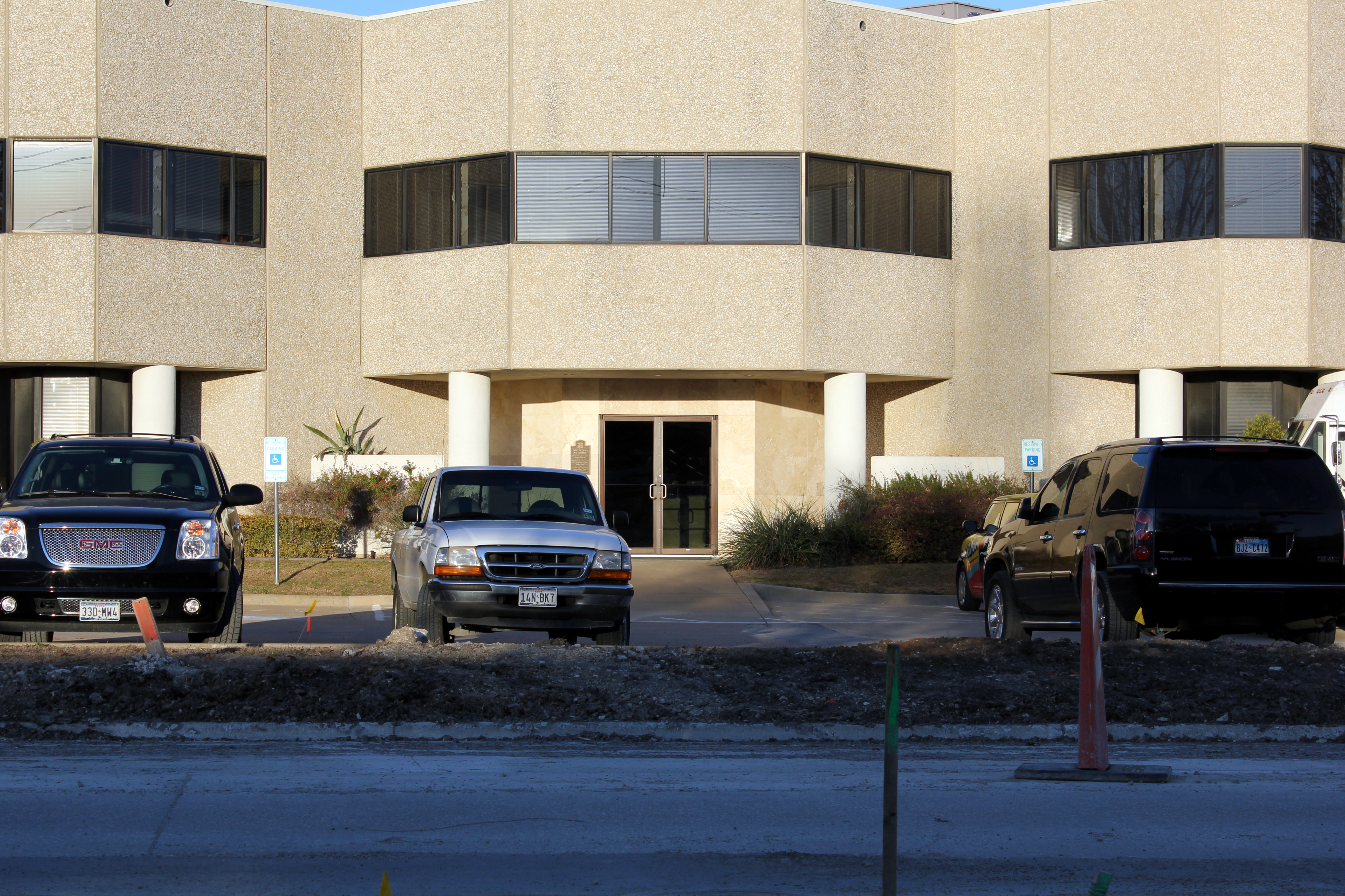 Front Entrance to Pizza Patrón Corporate Headquarters